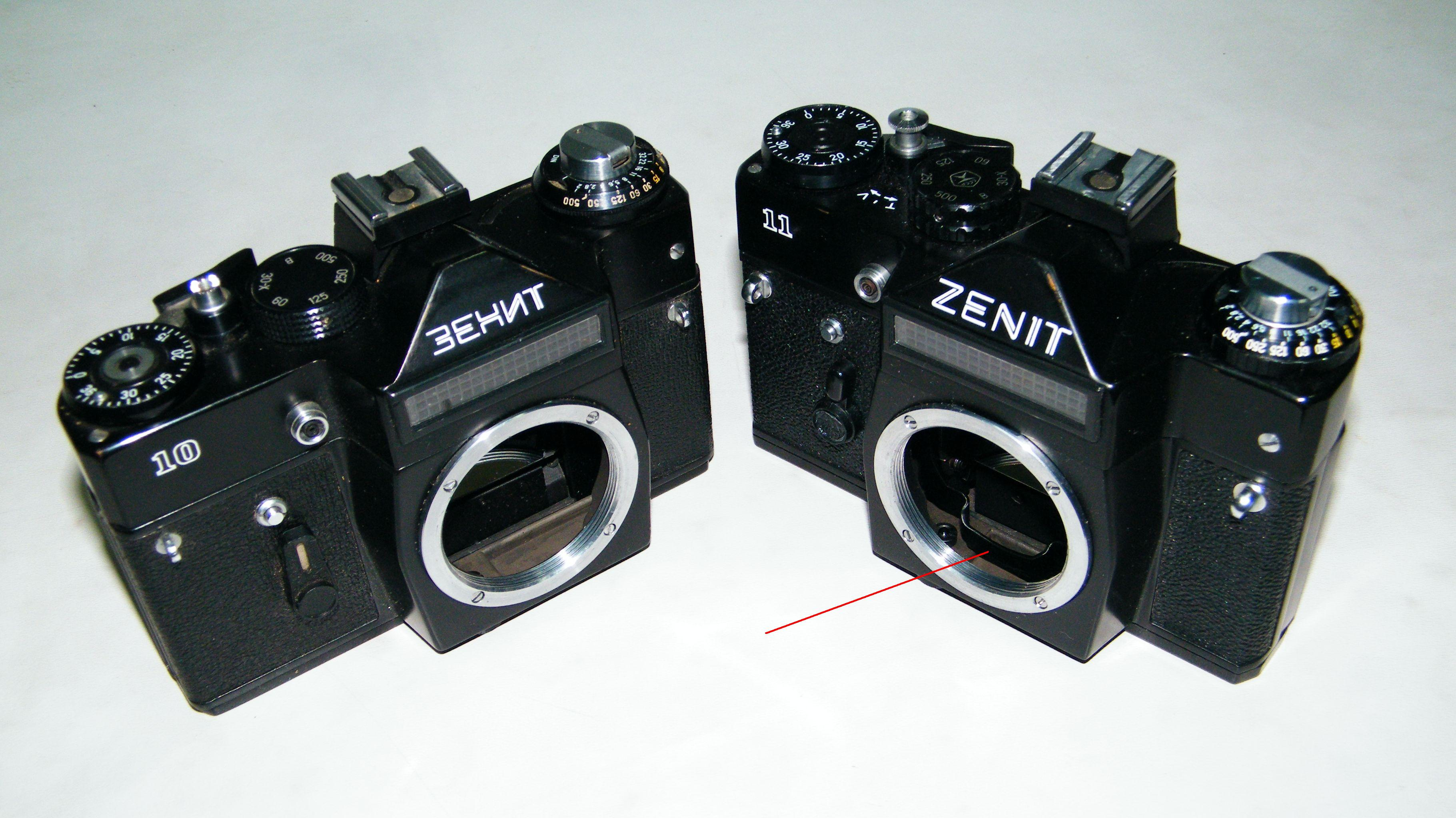 Зенит-10 и Зенит-11